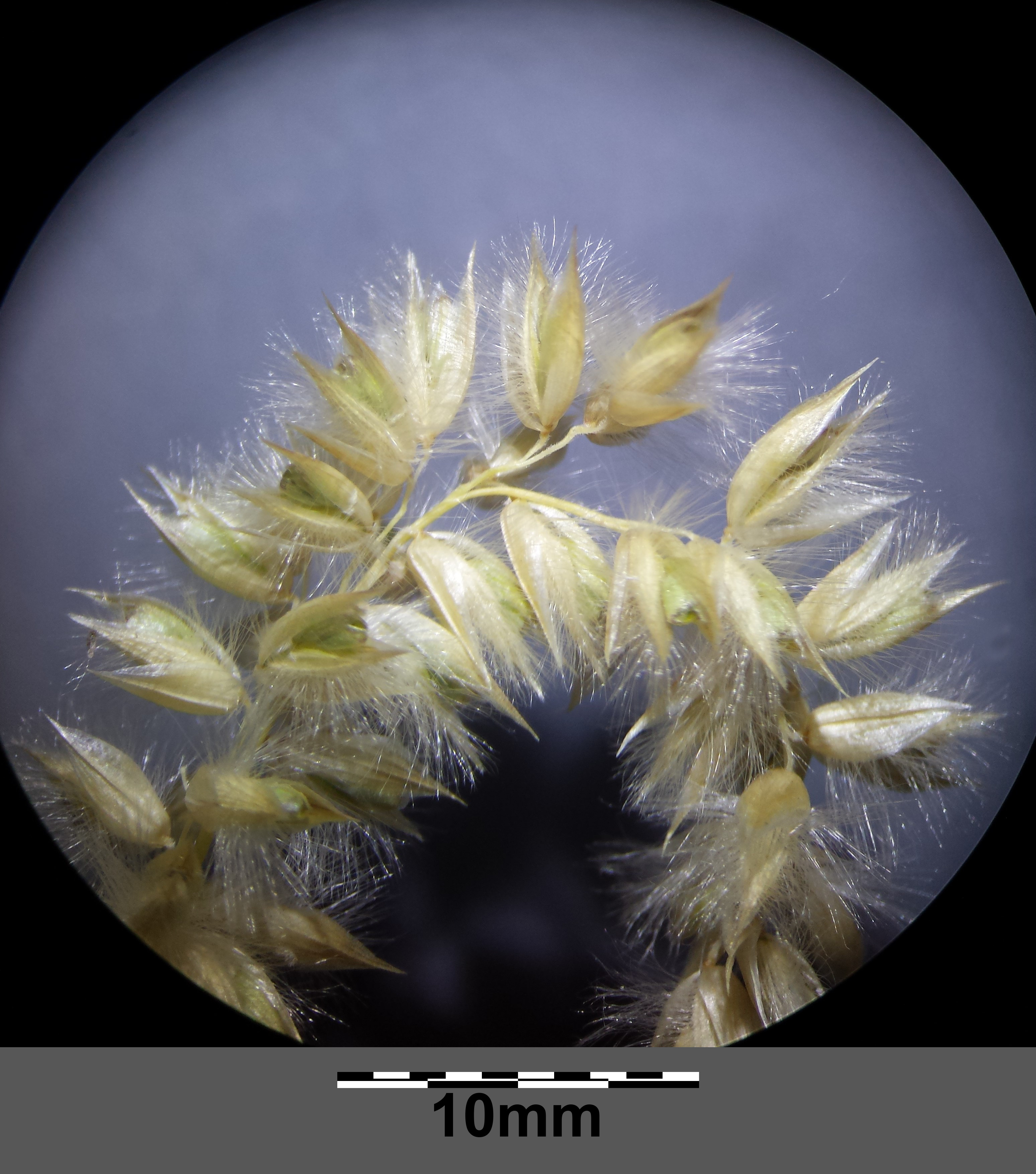 Panicle (detail) Taxonym: Melica ciliata subsp. ciliata ss Fischer et al. EfÖLS 2008 ISBN 978-3-85474-187-9 Location: Neue Donau, district Korneuburg, Lower Austria - ca. 160 m a.s.l. Habitat: stone area